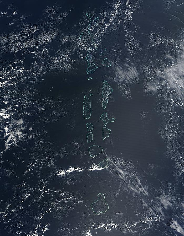 It is not the islands of the Maldives that are visible in this Moderate Resolution Imaging Spectroradiometer (MODIS) image, it is the ring of coral atolls that form the islands. Approximately 1,190 tiny islands sit on the 26 atolls seen in this image. The coral reflects light, lending a brilliant aquamarine tint to the water in satellite imagery, and it is this that makes the Maldives stand out against the vast Indian Ocean. Only 80 of the islands themselves are occupied. The islands are low and flat, covered with white sandy beaches. Because 80 percent of the land area is less that one meter above sea level, the country is highly susceptible to sea level changes related to global warming.